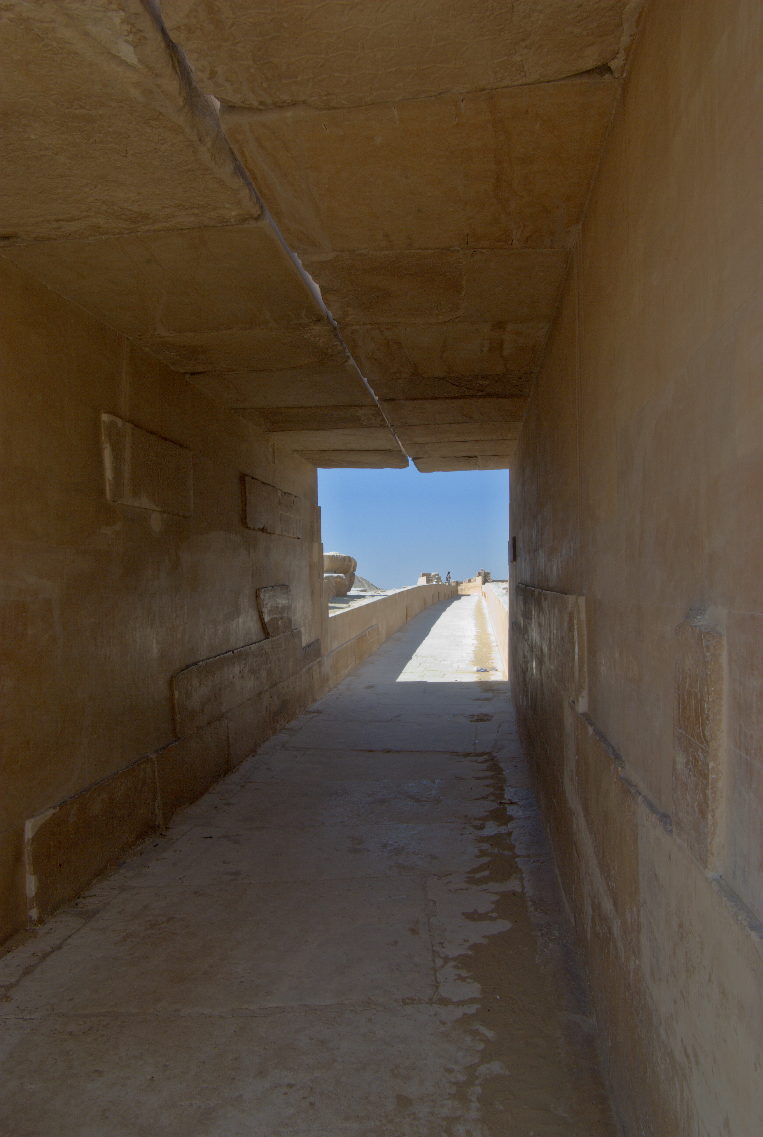 Egypt, Saqqara, the way to the pyramid of Unas